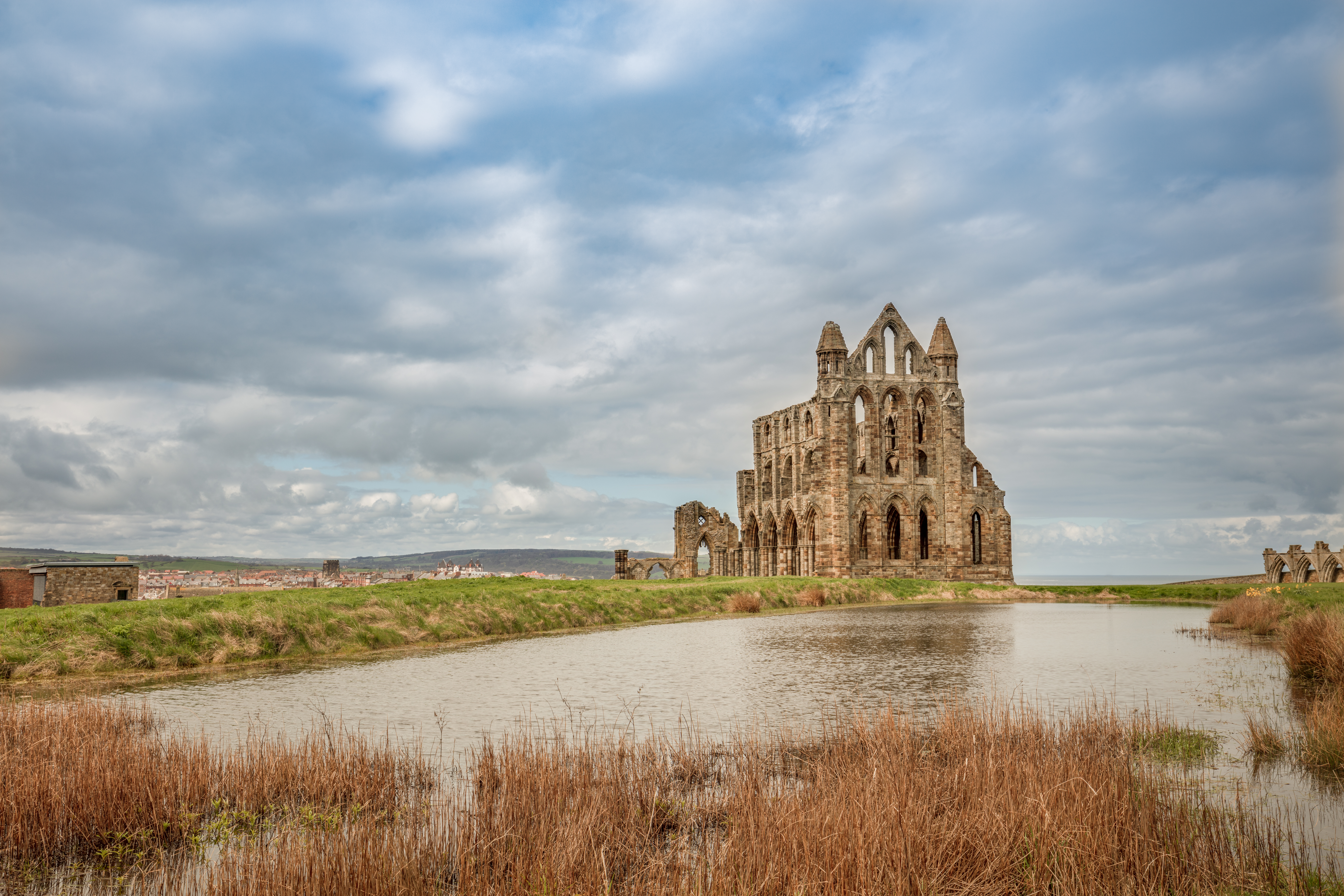 Here is a photograph I took from Whitby Abbey. Located in Whitby, Yorkshire, England, UK.Whitby Abbey was inspirational to Bram Stoker who wrote the Dracula story.